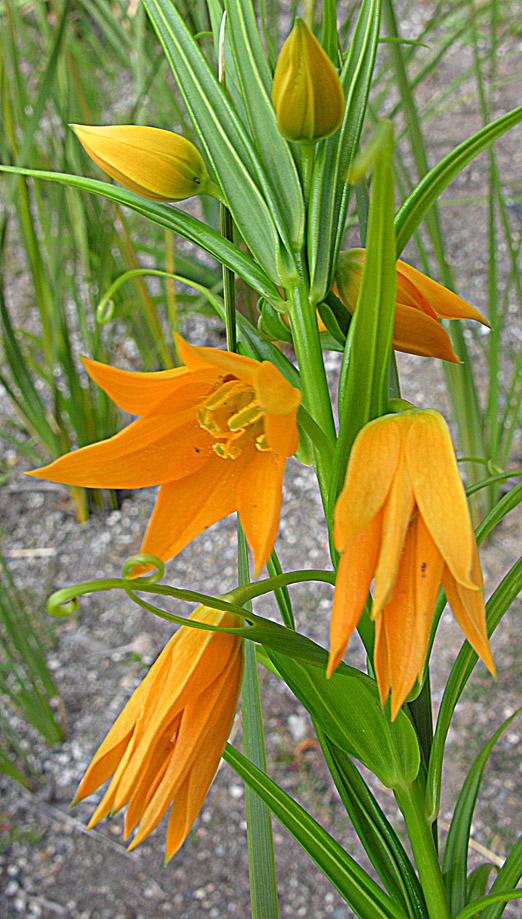 A species native to southeastern Africa, but more familiar in gardens, where it goes by names such as Climbing Lily and Butter Lily. University of B.C. Gardens, Vancouver.